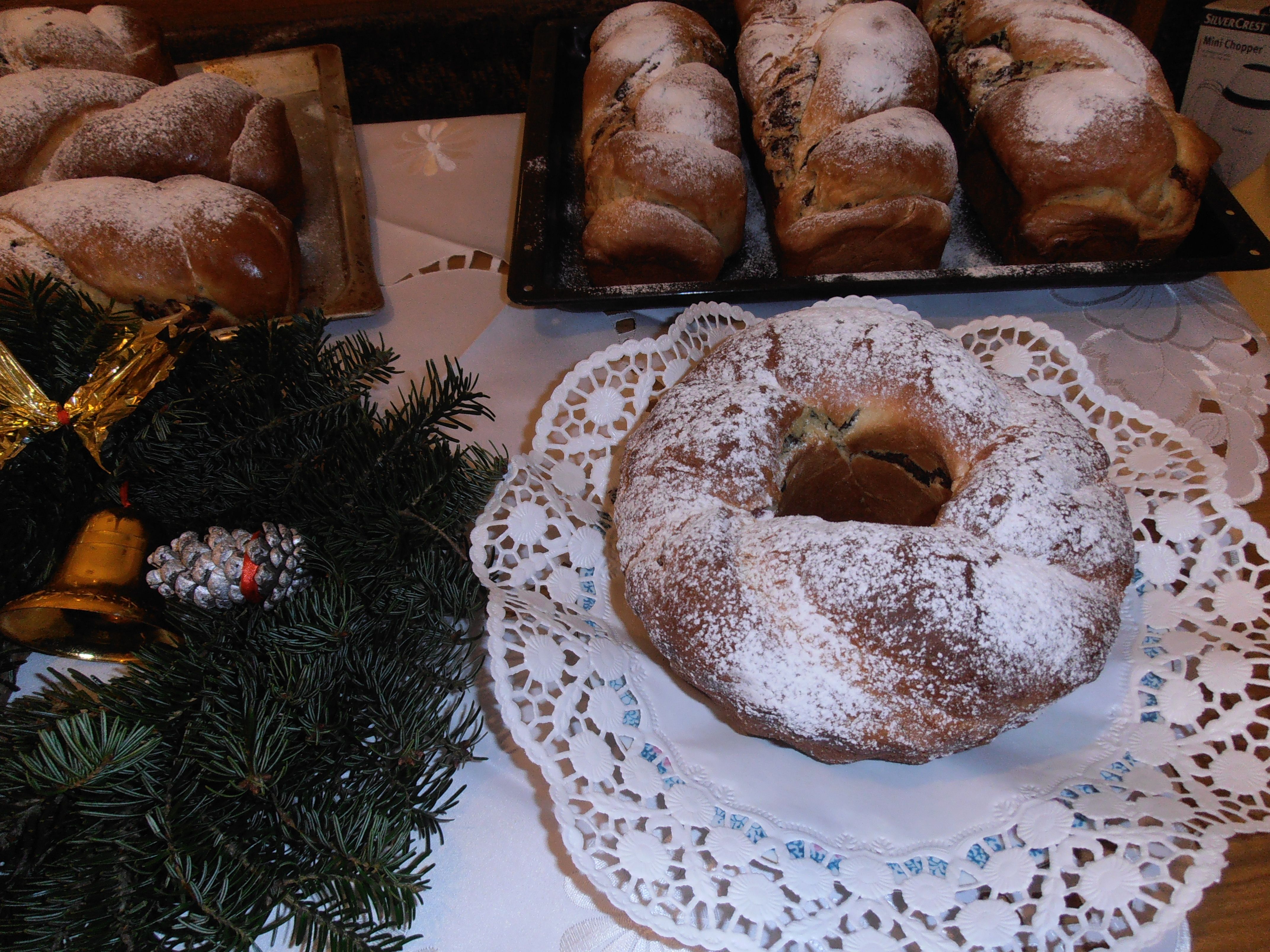 Cozonac and walnut; Romanian traditional food